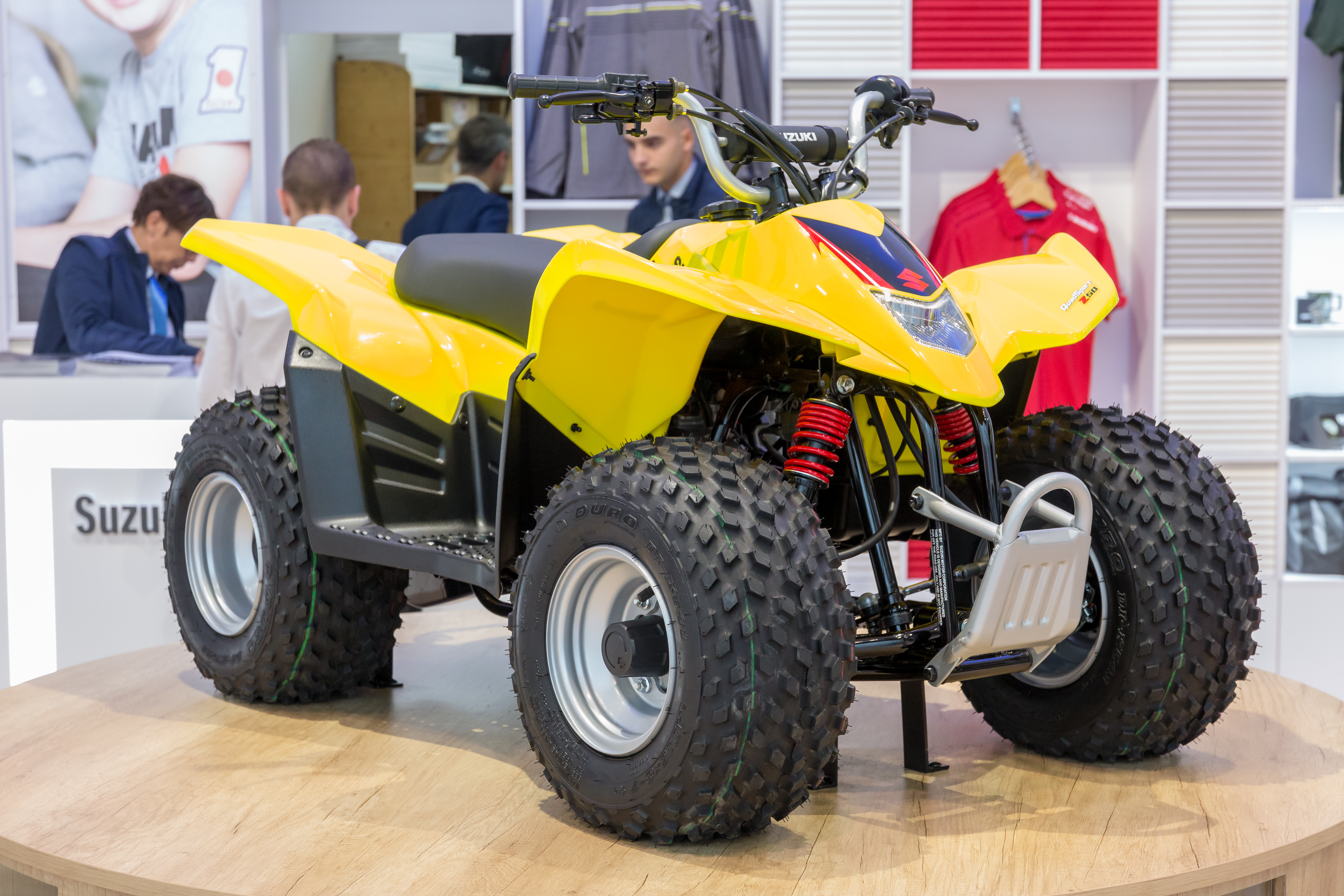 Suzuki QuadSport Z50 at Mondial Paris Motor Show 2018